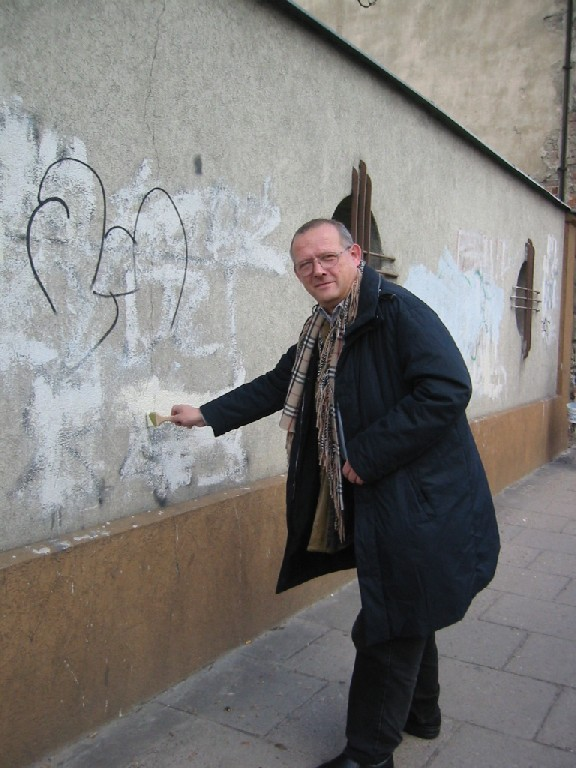 Adam Michnik during "Kolorowa Tolerancja" in Łódź